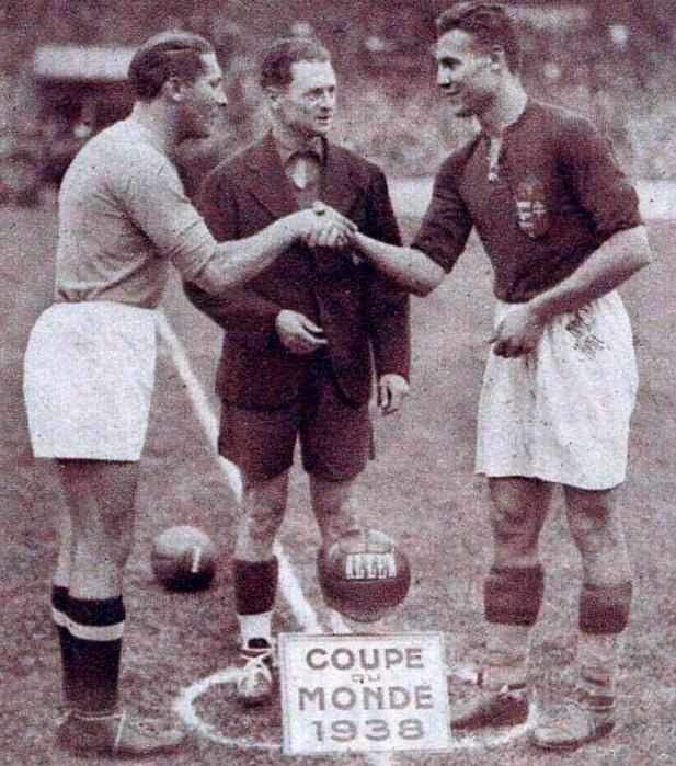 1938 Rimet Cup final: French referee Capdeville oversees the greetings between Italian and Hungarian captains Meazza and Sarosi